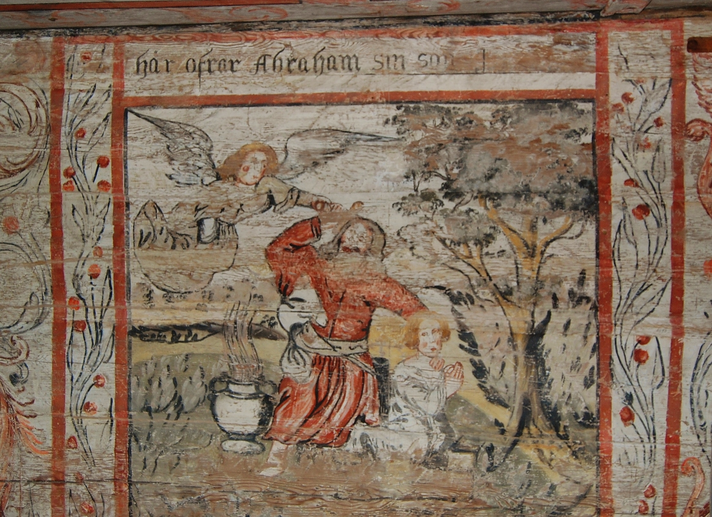 Granhult Church.Detail of the sacristy Homer mural from the last half of the 17th century. "Abraham's sacrifice ".